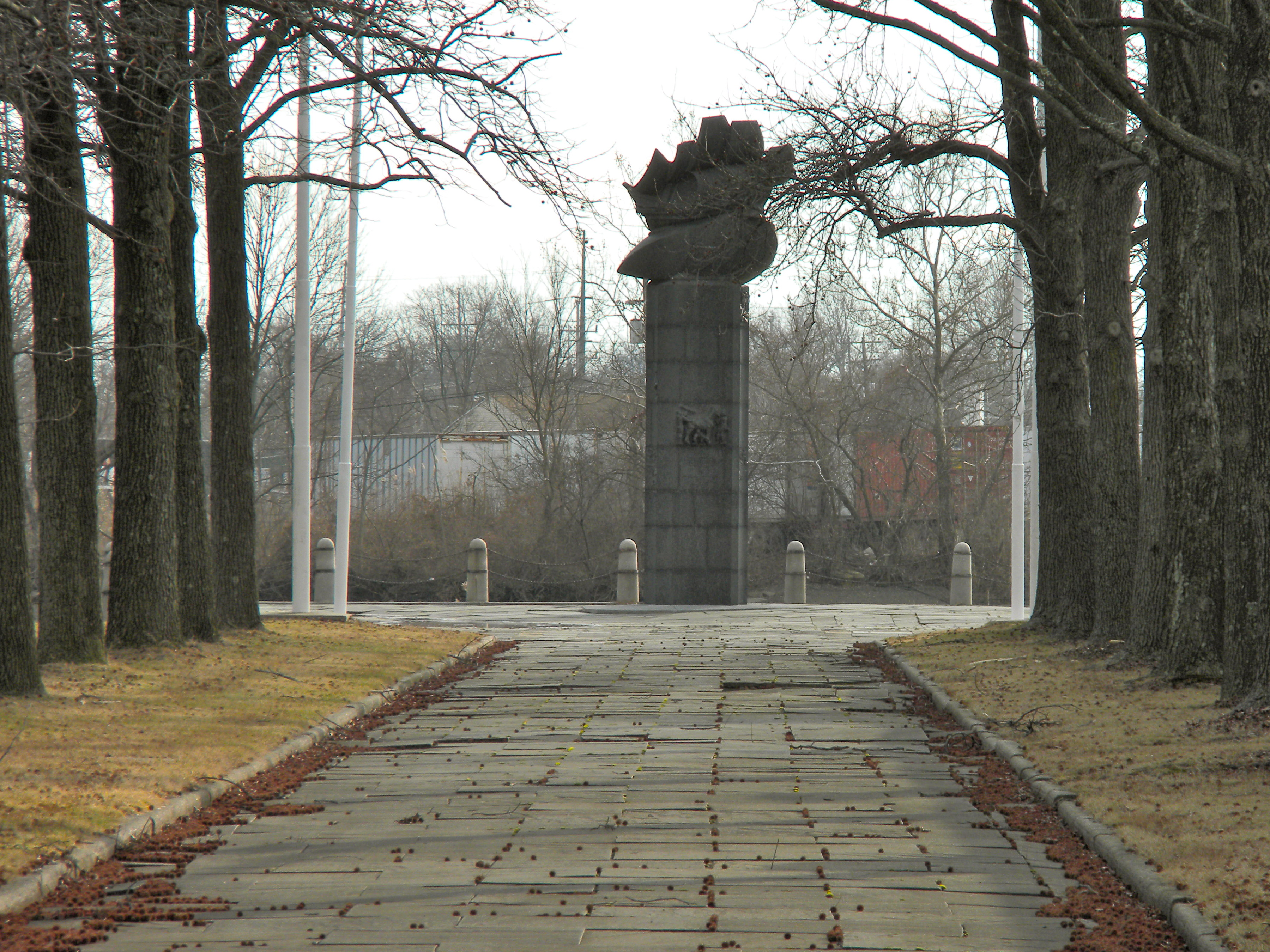 Fort Christina E. 7th St. and the Christina River, Fort Christina State Park